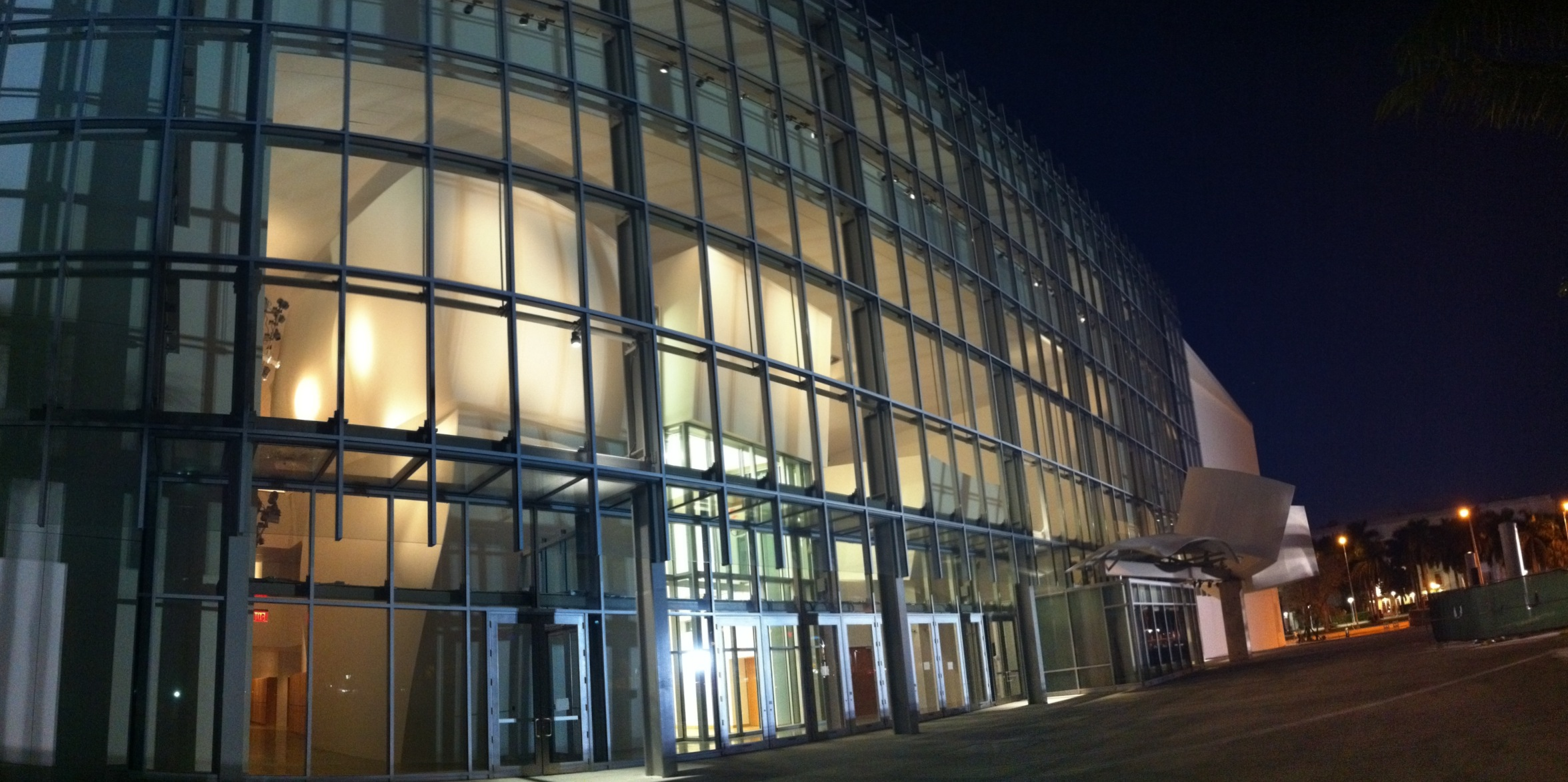 Exterior of the New World Center